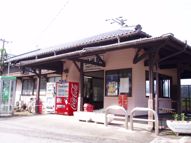 West Japan Railway Sanin Line Yanase Station Building